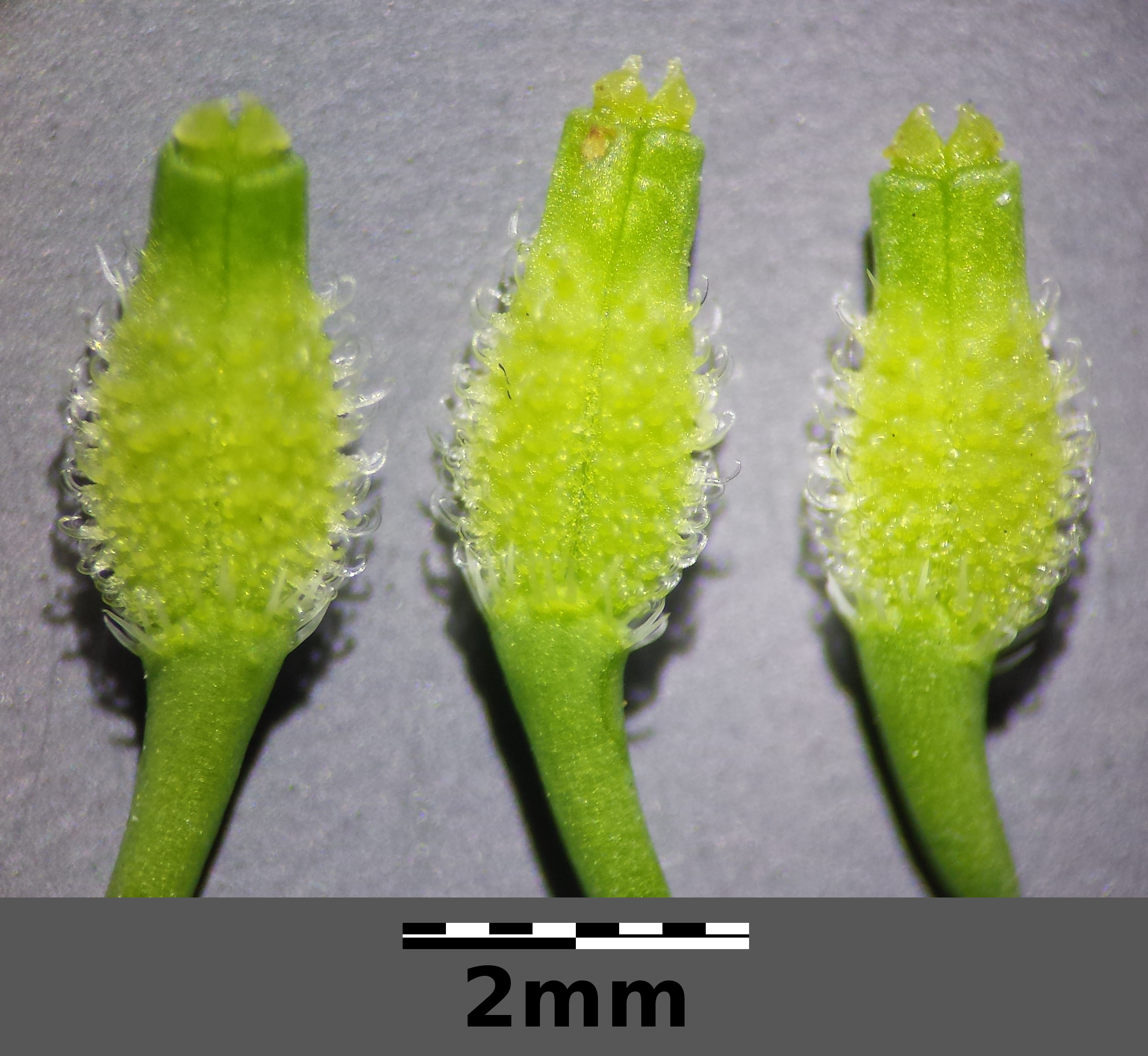 Fruits Taxonym: Anthriscus caucalis ss Fischer et al. EfÖLS 2008 ISBN 978-3-85474-187-9 Location: Donauinsel near intake works, district Wien-Umgebung, Lower Austria - ca. 160 m a.s.l. (leg. 2015-04-23) Habitat: roadside